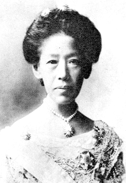 Umeko Itō (?–1925), wife of Hirobumi Itō